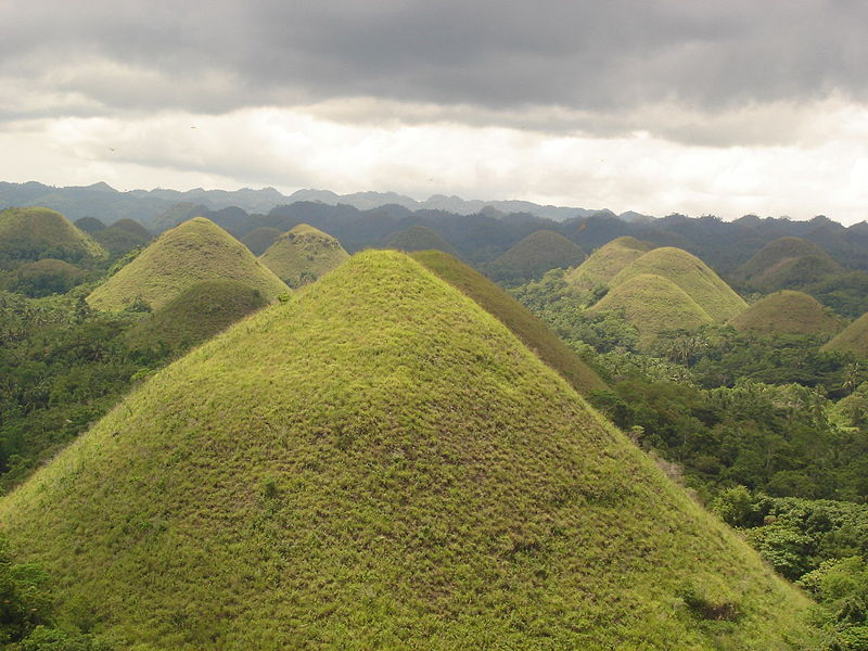 View of the Chocolate Hills, Bohol, the Philippines.